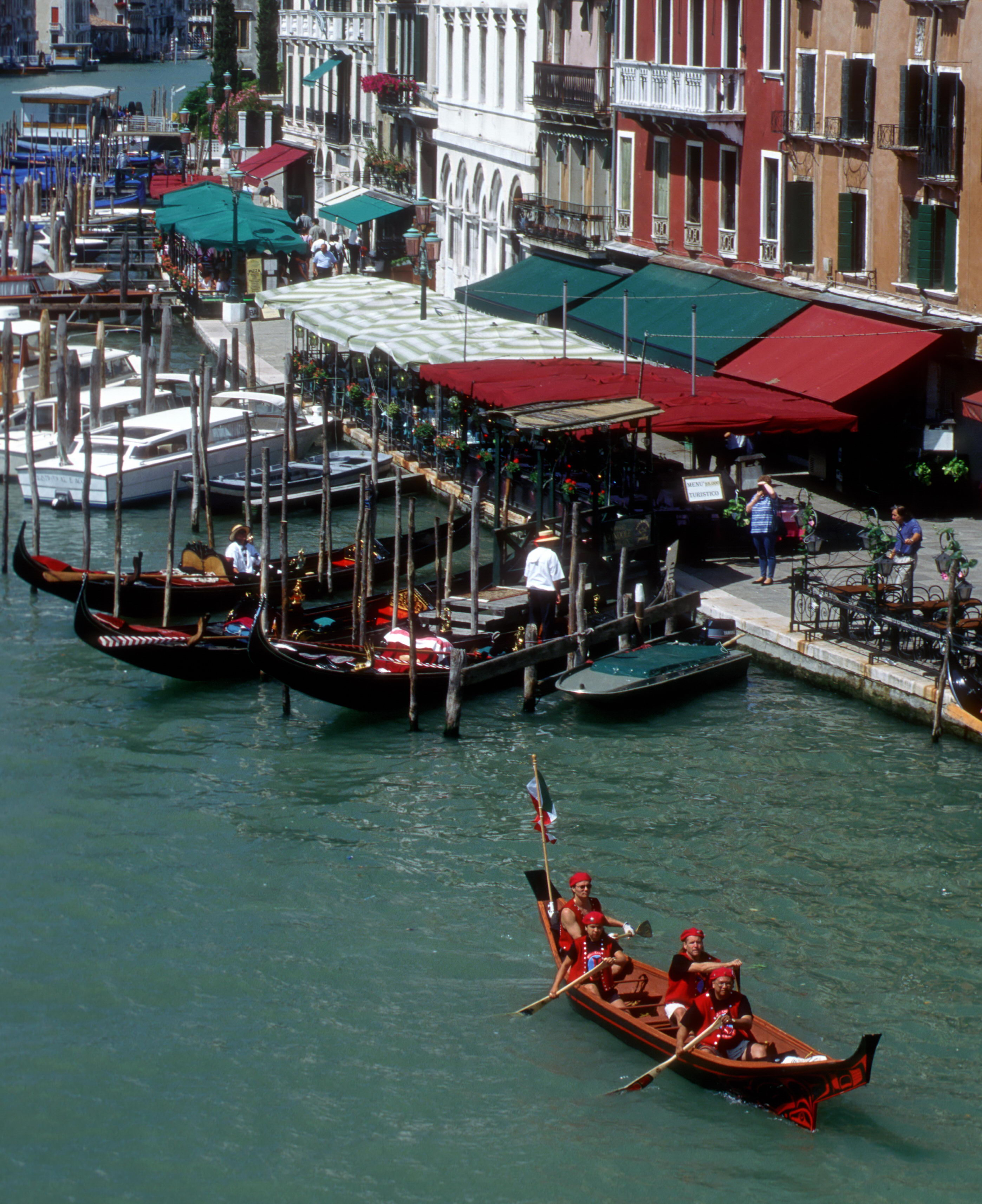 Native American dug-out canoe in Venice Italy, by David Neel